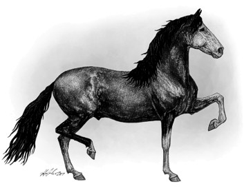 Scan of a drawing made of the typical Costa Rican Saddle horse highly based on video references of legendary and "Malquerido", as well as online pictures of "Nosara" and "Janitzio"